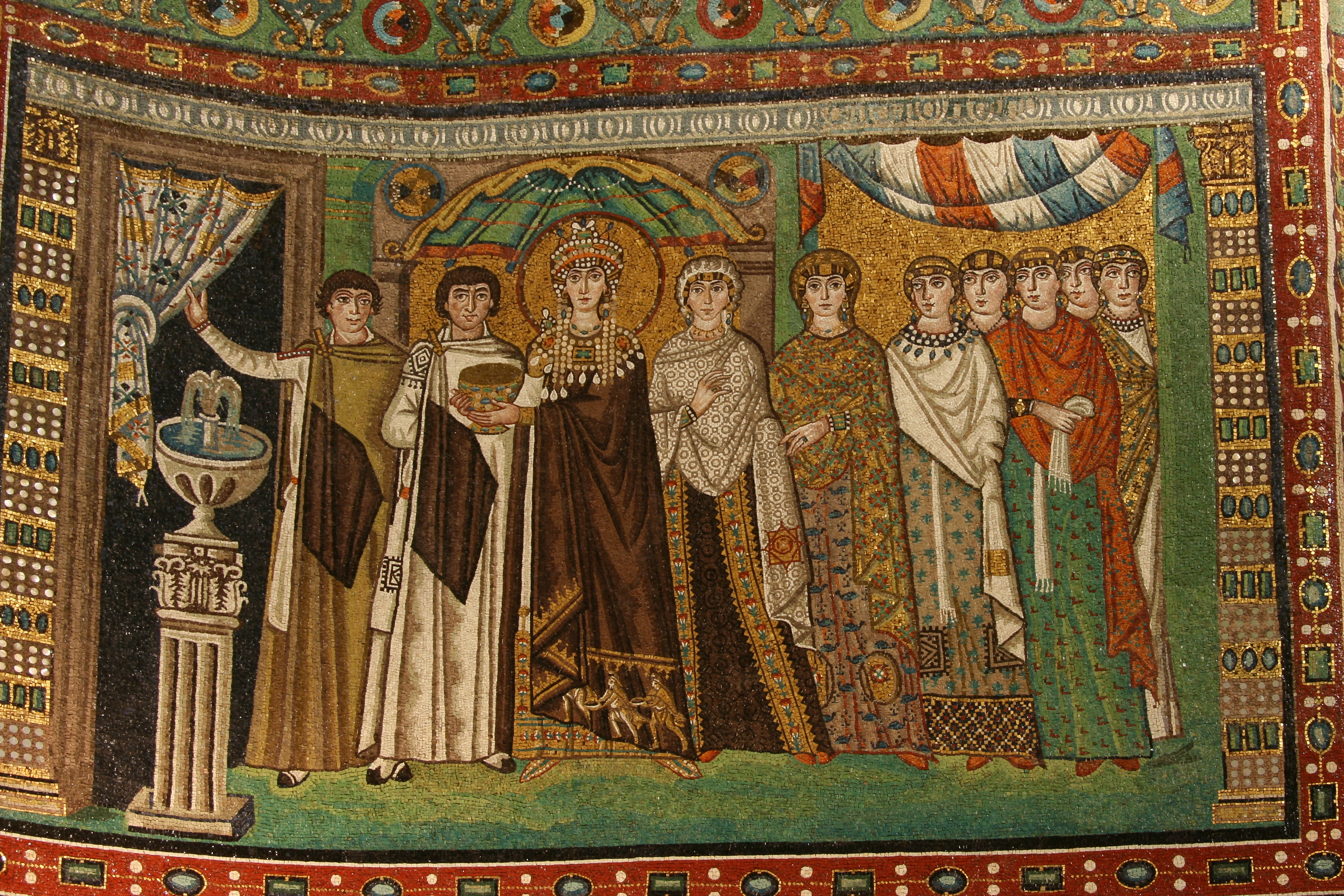 San Vitale basilica, Byzantine mosaic depicting Empress Theodora (6th century) flanked by a chaplain and a court lady believed to be her confidant Antonina, wife of general Belisarius.